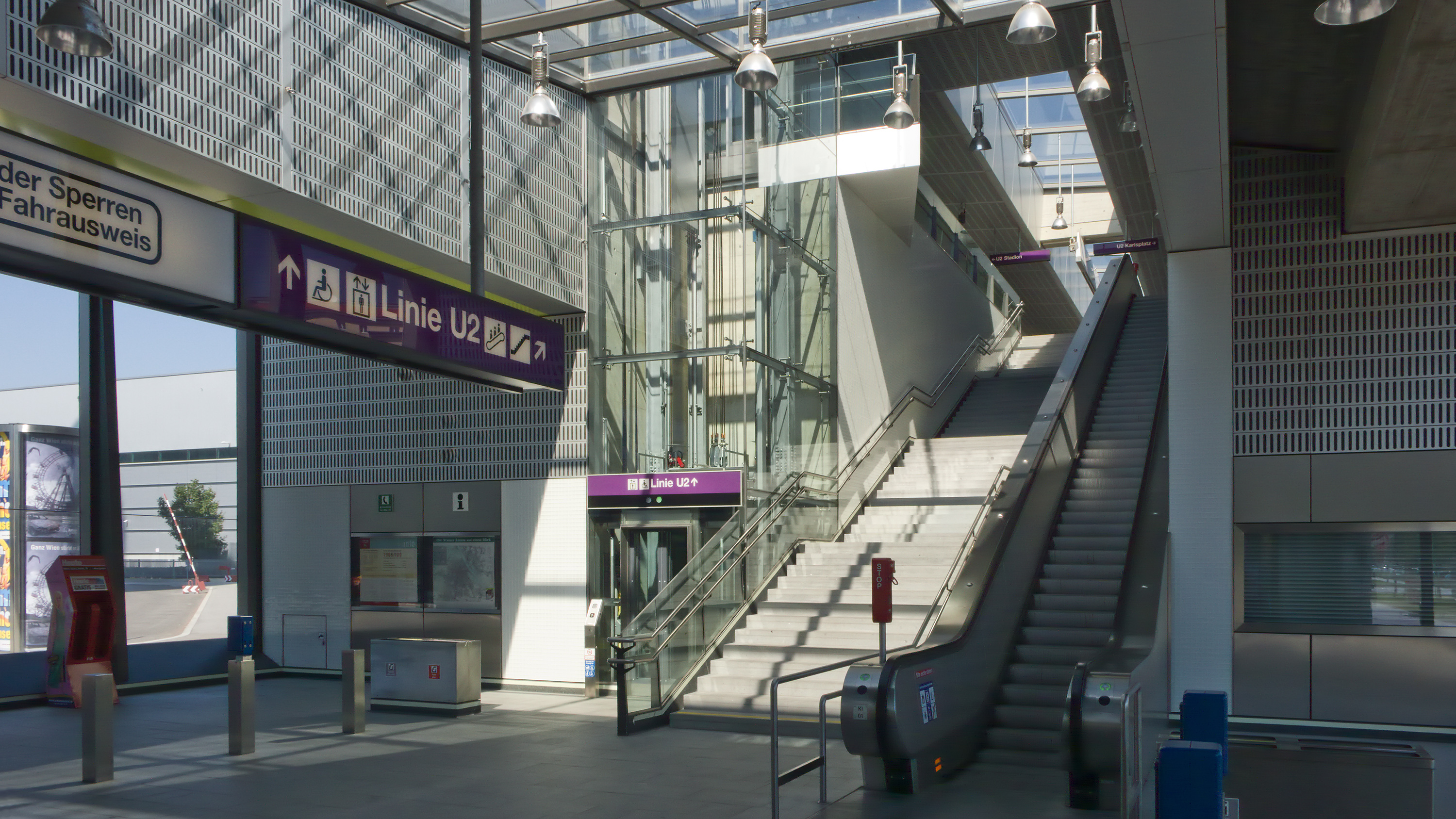 Underground station Krieau (U-Bahn-Station) in Vienna Leopoldstadt